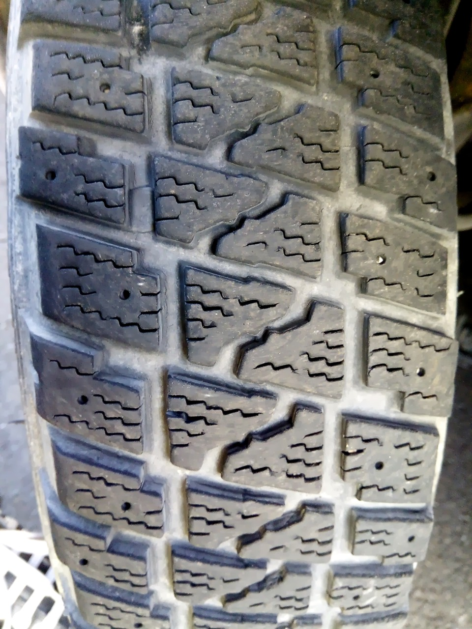 Tread of a winter tire designed for the use of nails.